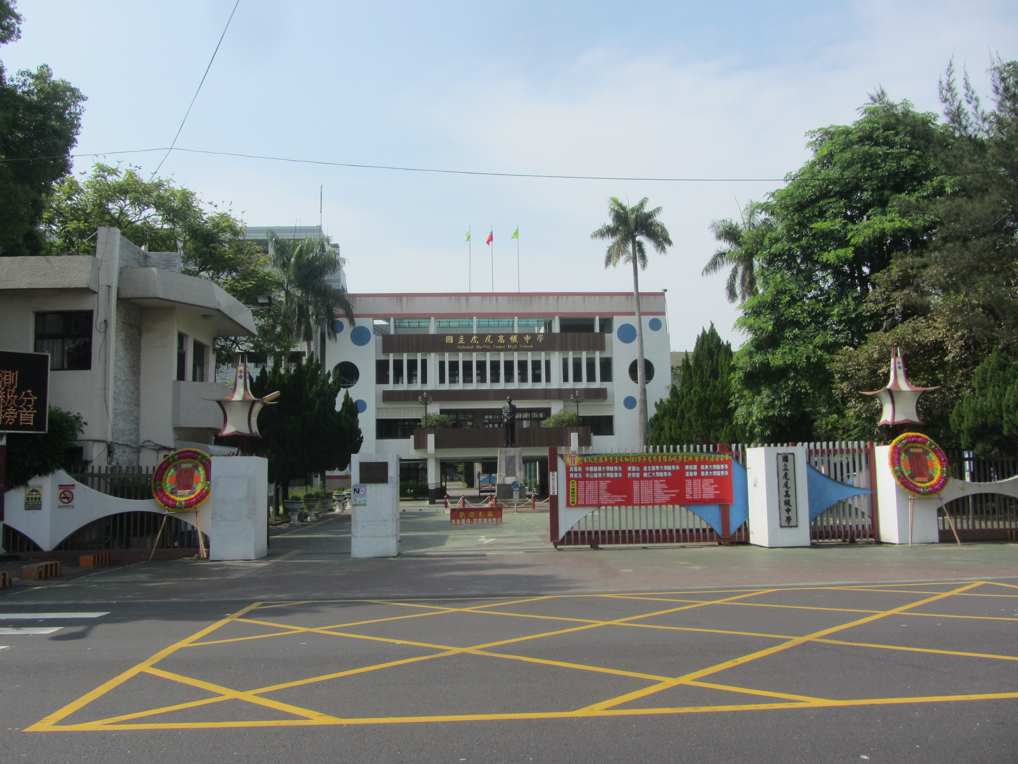 The gate of National Huwei Senior High School in Yunlin, Taiwan.